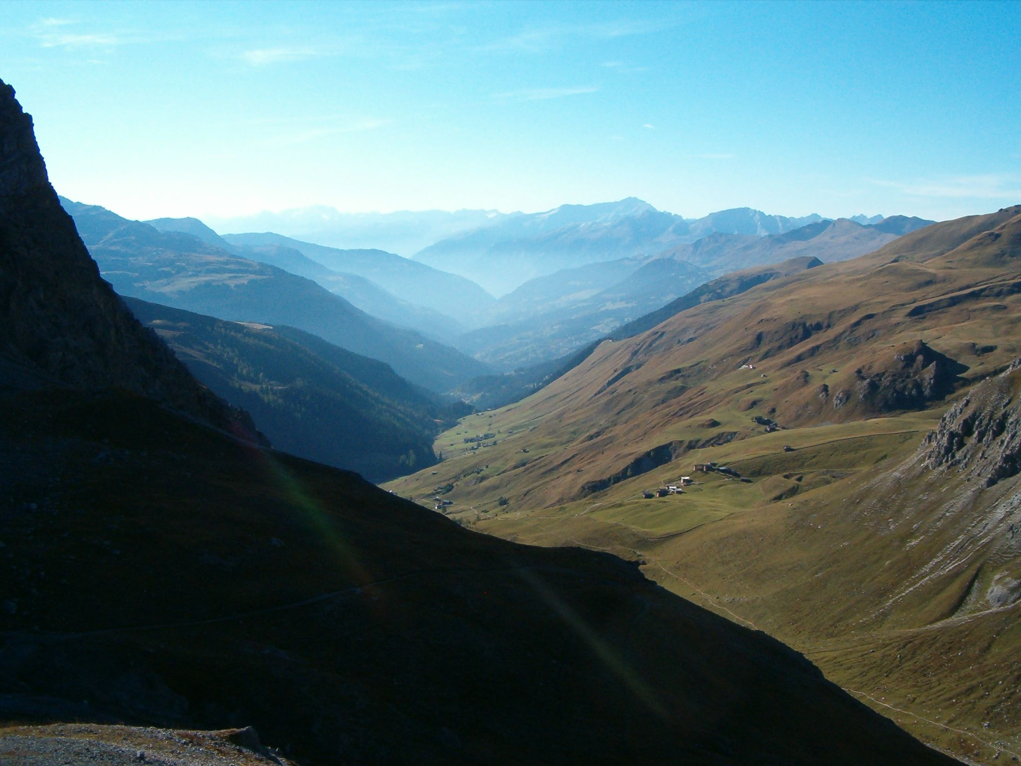 Strelapass & Sapuen Valley in Schanfigg/Switzerland